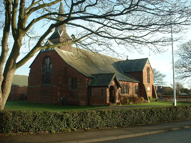 St Oswald's parish church, Lancaster Road, Knott End-on-Sea, Preesall, Lancashire, seen from the northeast